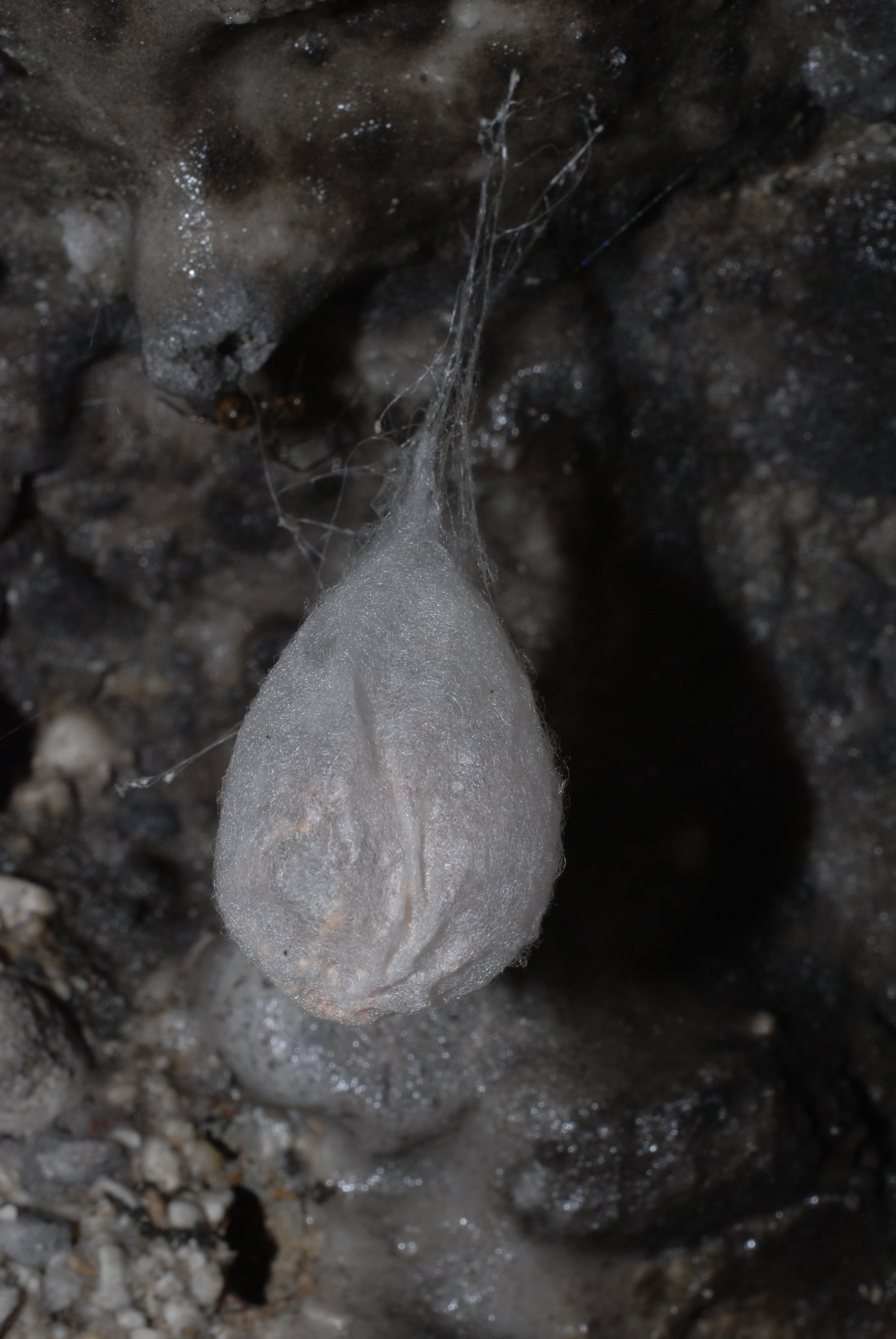 Cocoon of Meta menardi, in Devilscave (Teufelshöhle) near Kremsmünster, Austria